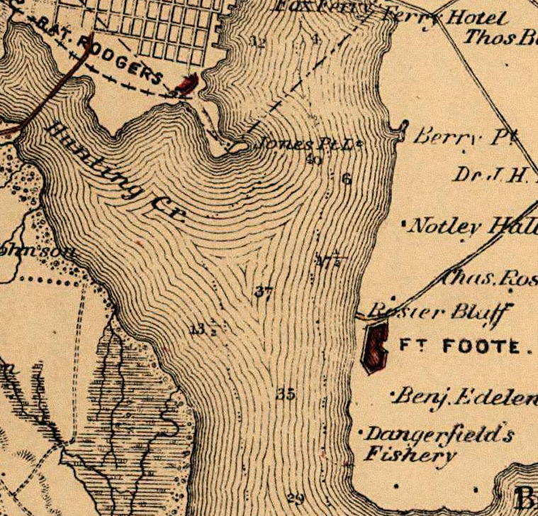 Closeup of 1865 U.S. War Department map of the defenses of Washington, D.C. Closeup shows Battery Rodgers and Fort Foote guarding the Potomac approaches to Washington.